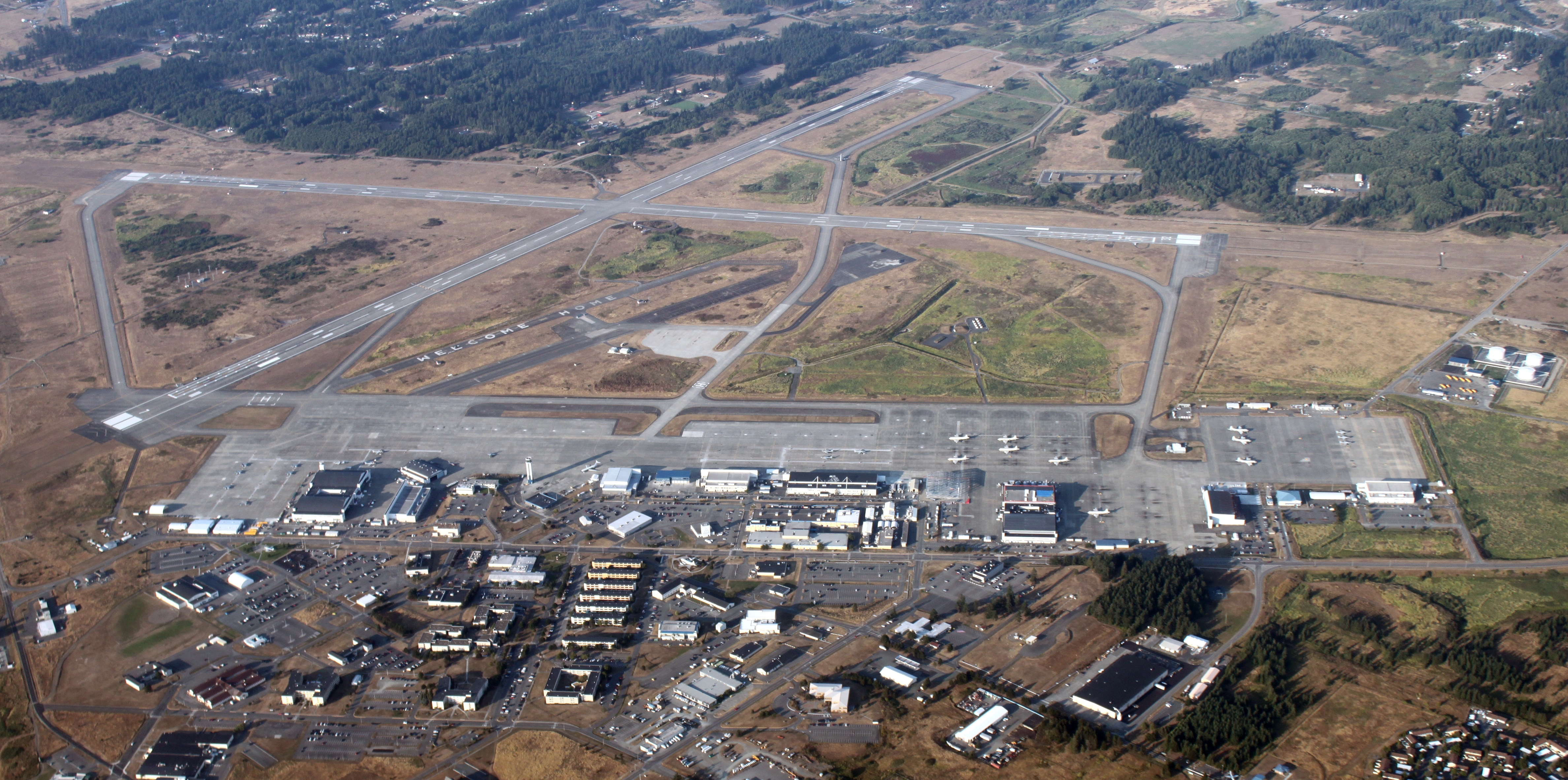 Aerial view of Naval Air Station Whidbey, Washington. Shot from 4,500' looking north.